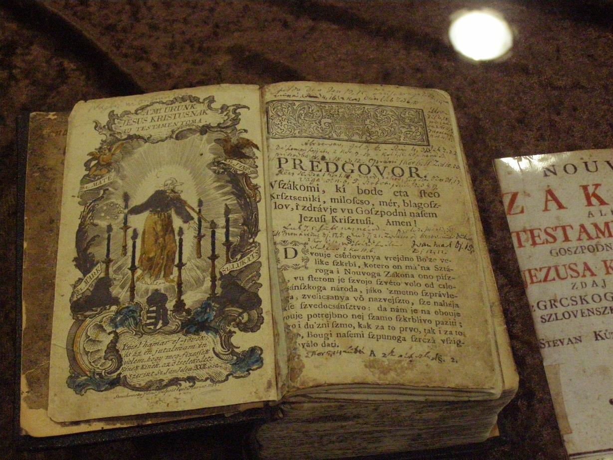 Original edition of the Nouvi Zákon (New Testament of István Küzmics) in the Exhibition of Library of Murska Sobota in 2009 (Küzmics year)